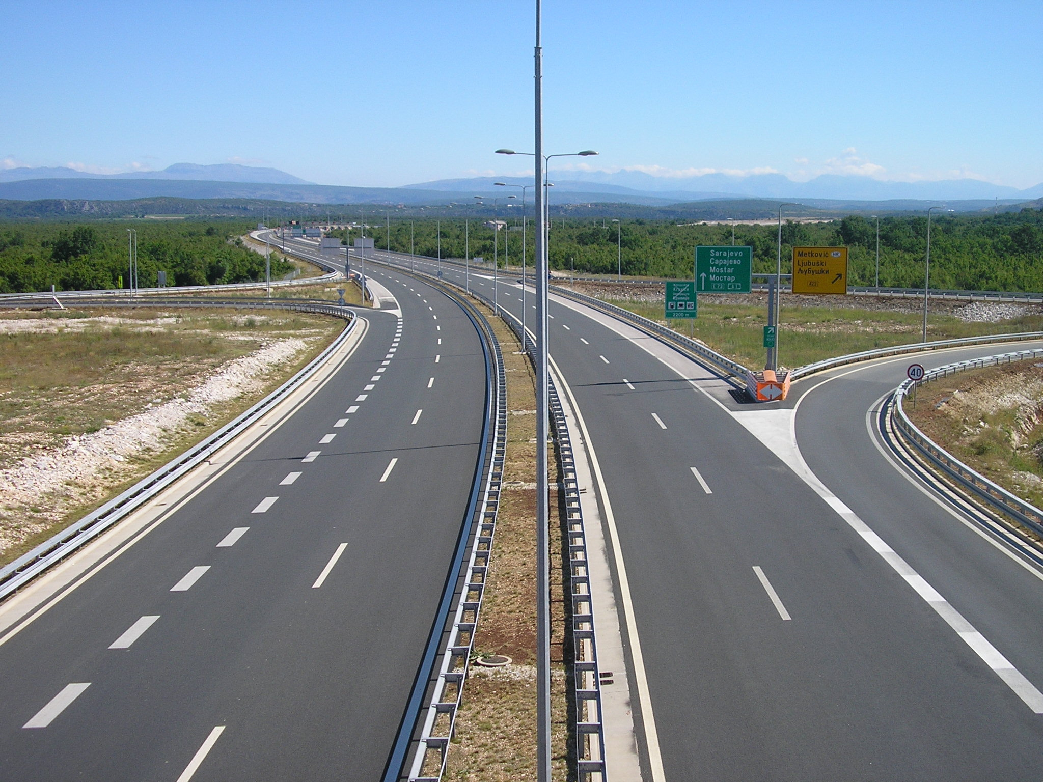 A1 highway, exit Bijača, towards the Zvirovići interchange